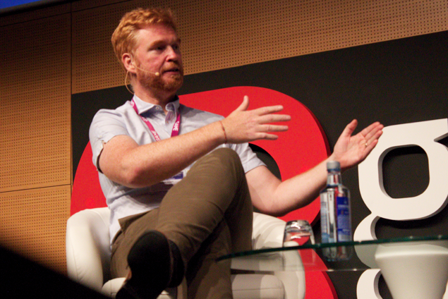 Hilmar Veigar Pétursson, CEO of video game company CCP Games, at the 2017 Gamelab Congreso Videojuegos